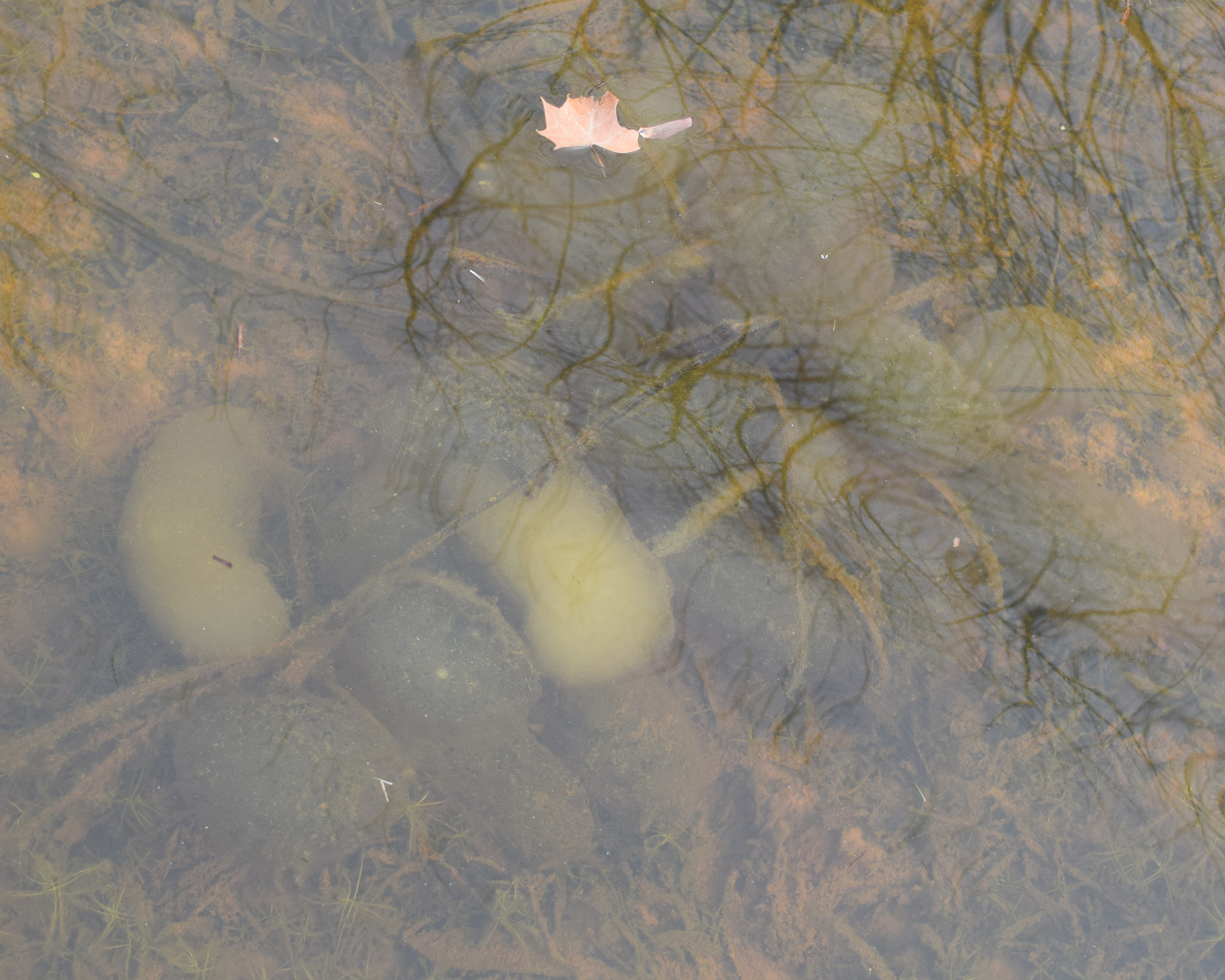 A group of Ambystoma maculatum (spotted salamander) egg masses in pond 67 at the University of Mississippi Field Station.